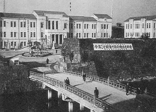 Fukui Prefectural Office in 1950s